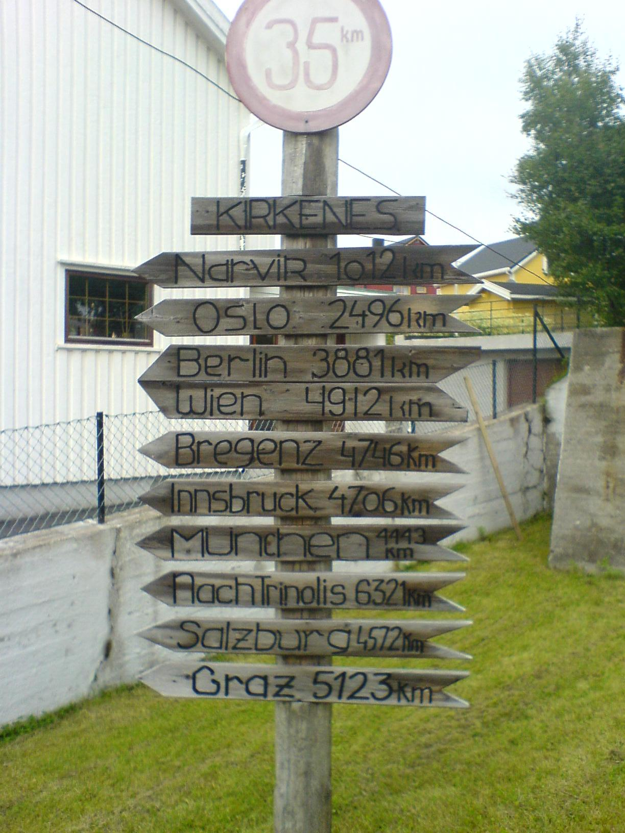 Signpost in Kirkenes, Norway. The distances are via Narvik-Oslo. It would be much shorter to drive via Tornio-Stockholm or via Helsinki-Tallinn if going to Germany/Austria.